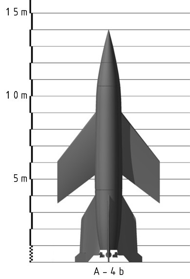 Aggregate-4b rocket shape.